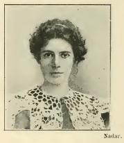 French Sculptor Jeanne Itasse (1865-1941)